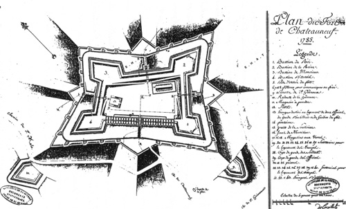 Original map of fort Saint-Père, on the south of Saint-Malo